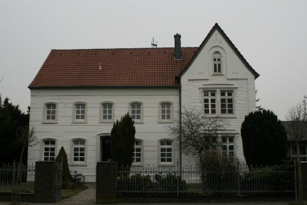 Cultural heritage monument No. 36 in Selfkant